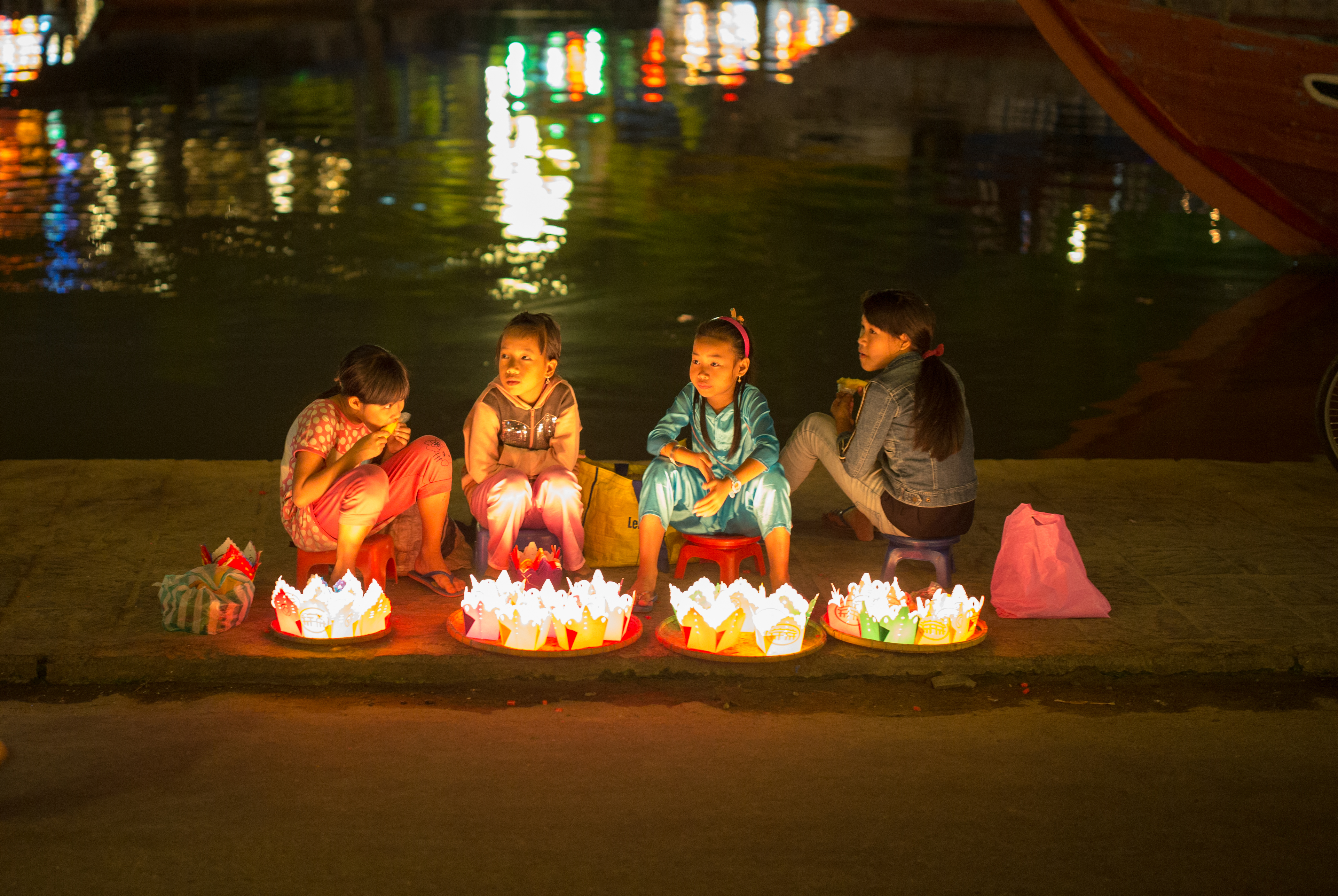 Camera shy lantern sales team, Hoi An, Vietnam